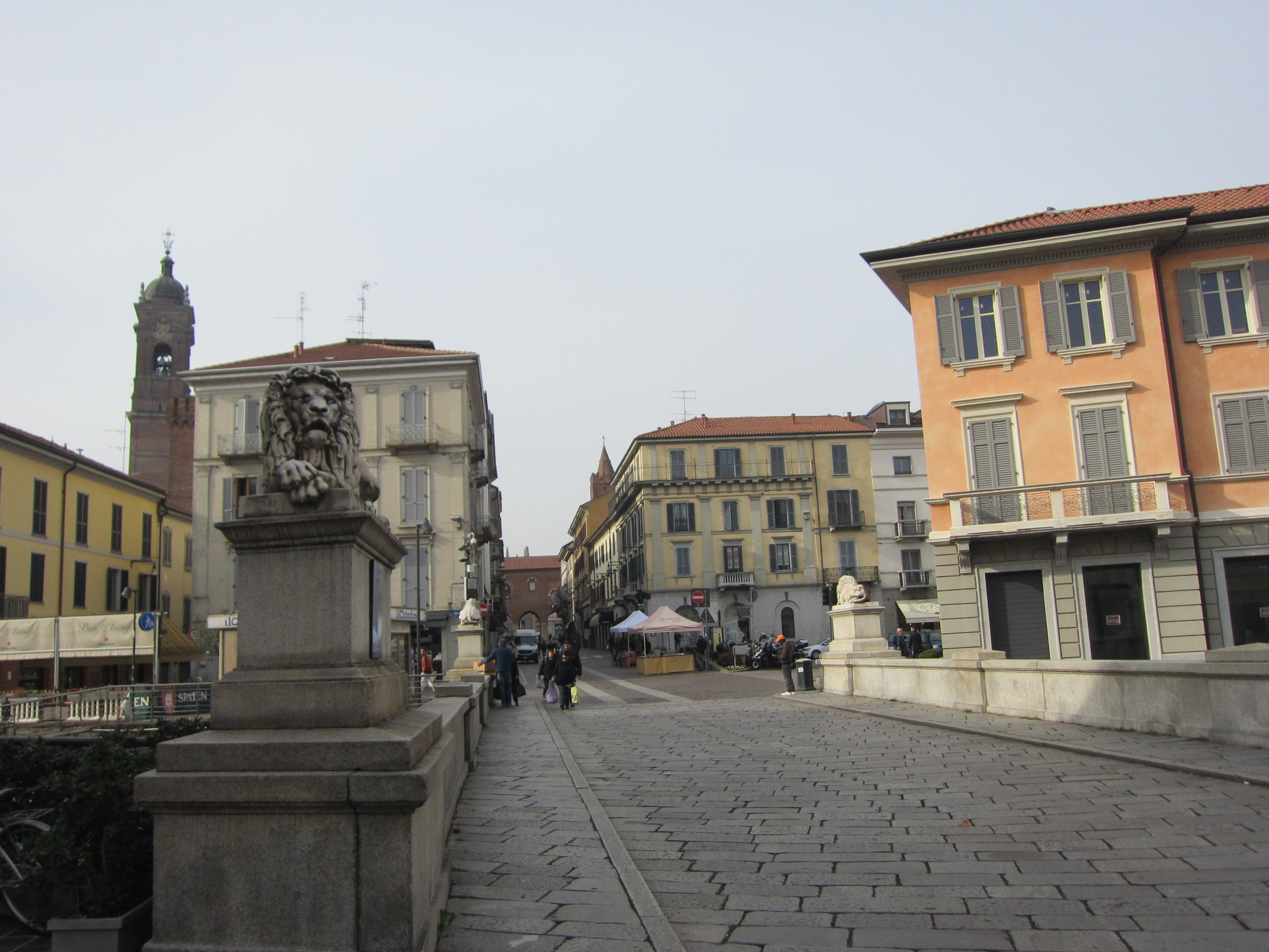 Ponte dei Leoni (Monza)